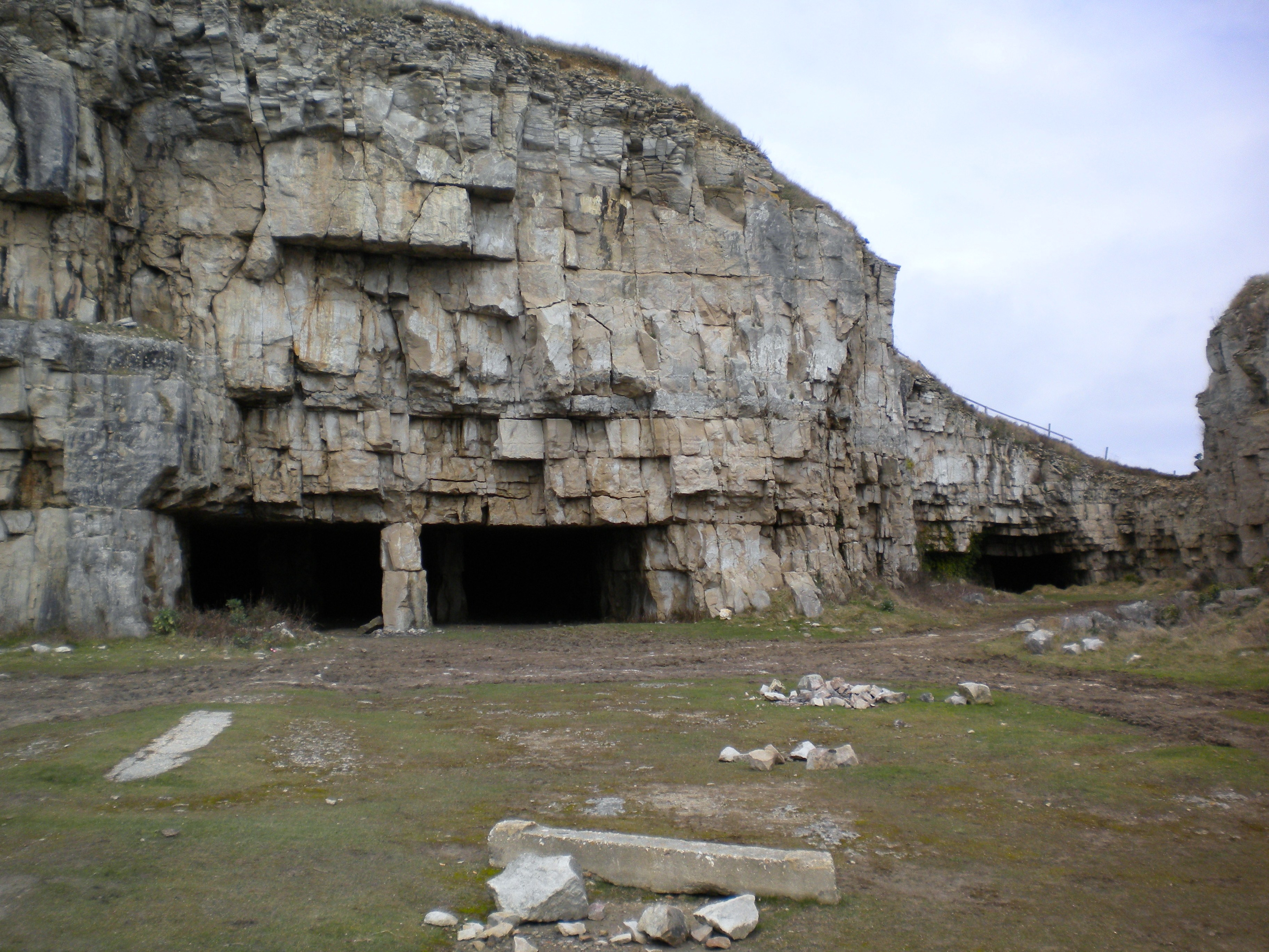 Stone quarry at Winspit on the Dorset coast, Worth Matravers, Dorset, England.